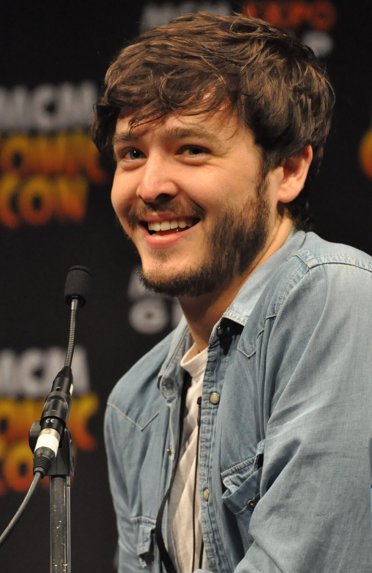 The following is the author's description of the photograph quoted directly from the photograph's Flickr page. """"